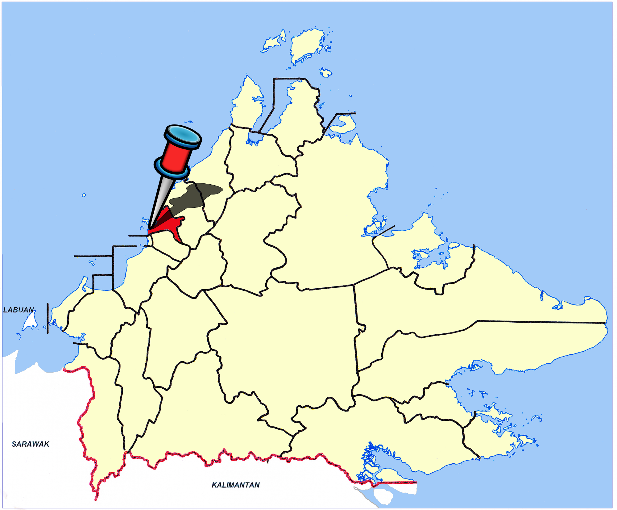 Sabah: Location map of District and Town Kota Kinabalu